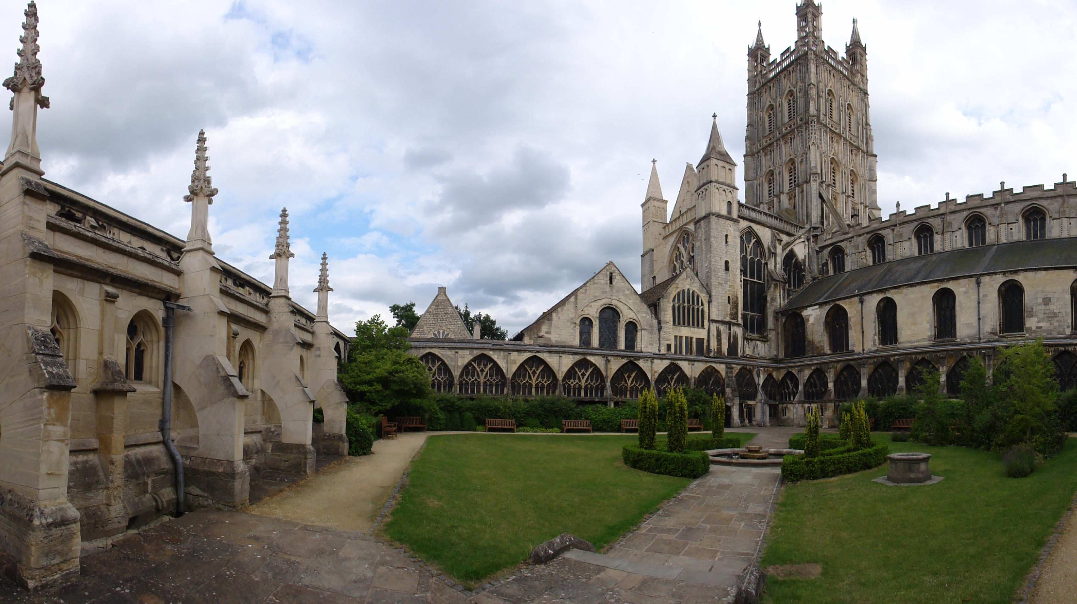 Gloucester Cathedral cloisters courtyard panoramic shot.